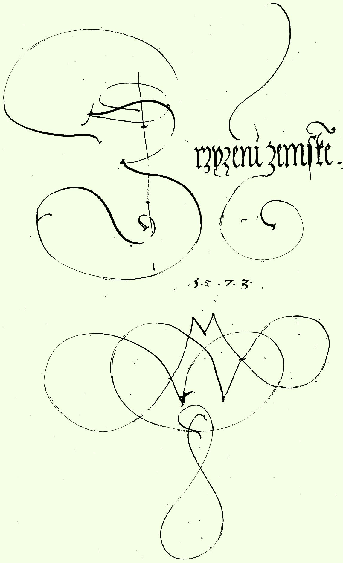 Title page of the Constitution of the Duchy of Teschen, issued by Wenceslaus III Adam, Duke of Teschen, in the year 1573. The constitution was issued in the Czech Language, being the official language of the Duchy at that time.